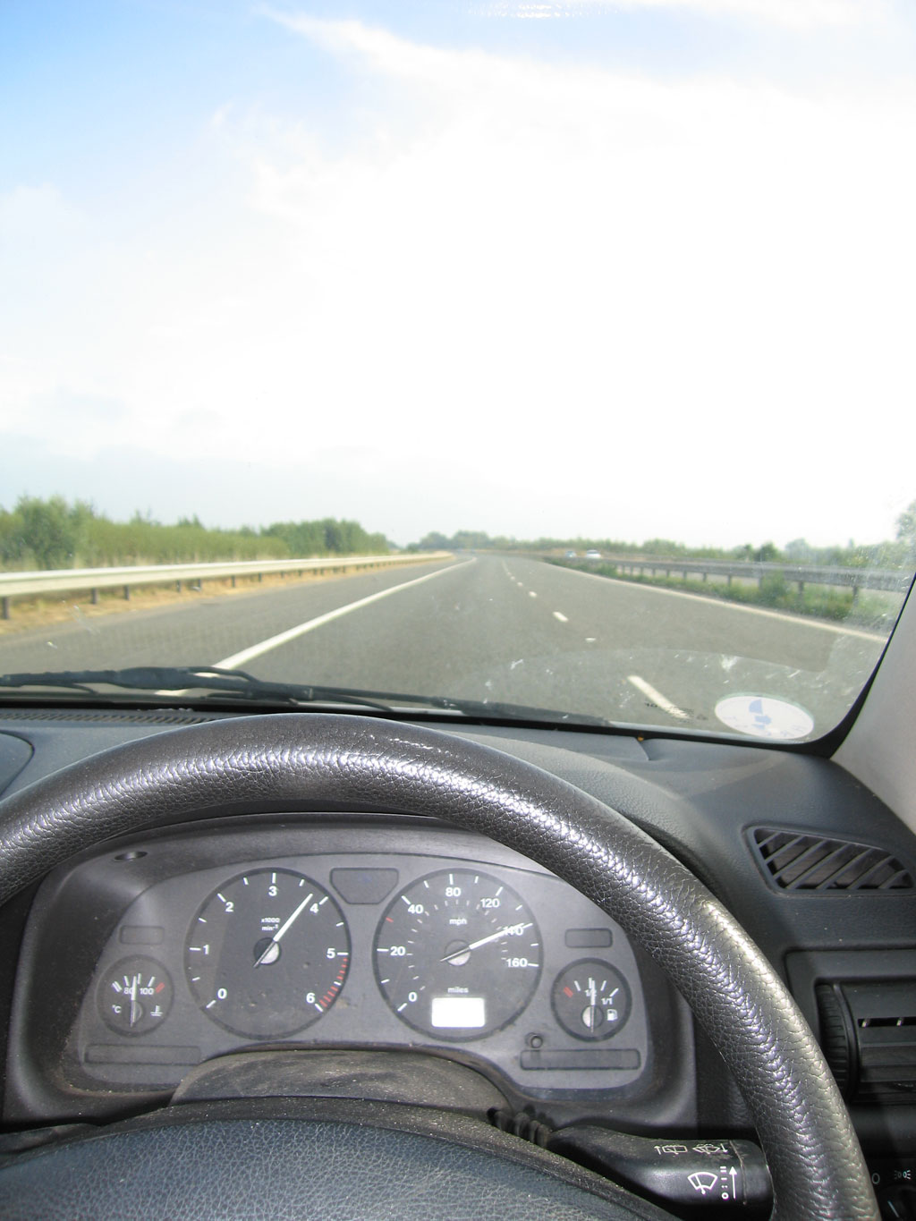 Please note: Speed kills, don't break the speed limit unless it is safe to do so.